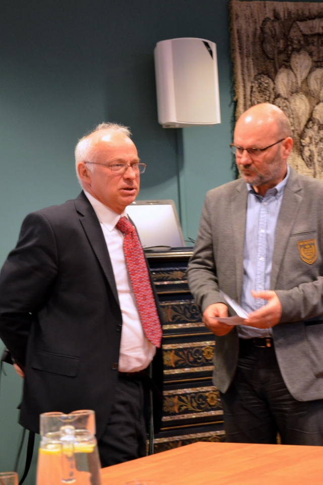 Zygmunt Vetulani (mathematician)